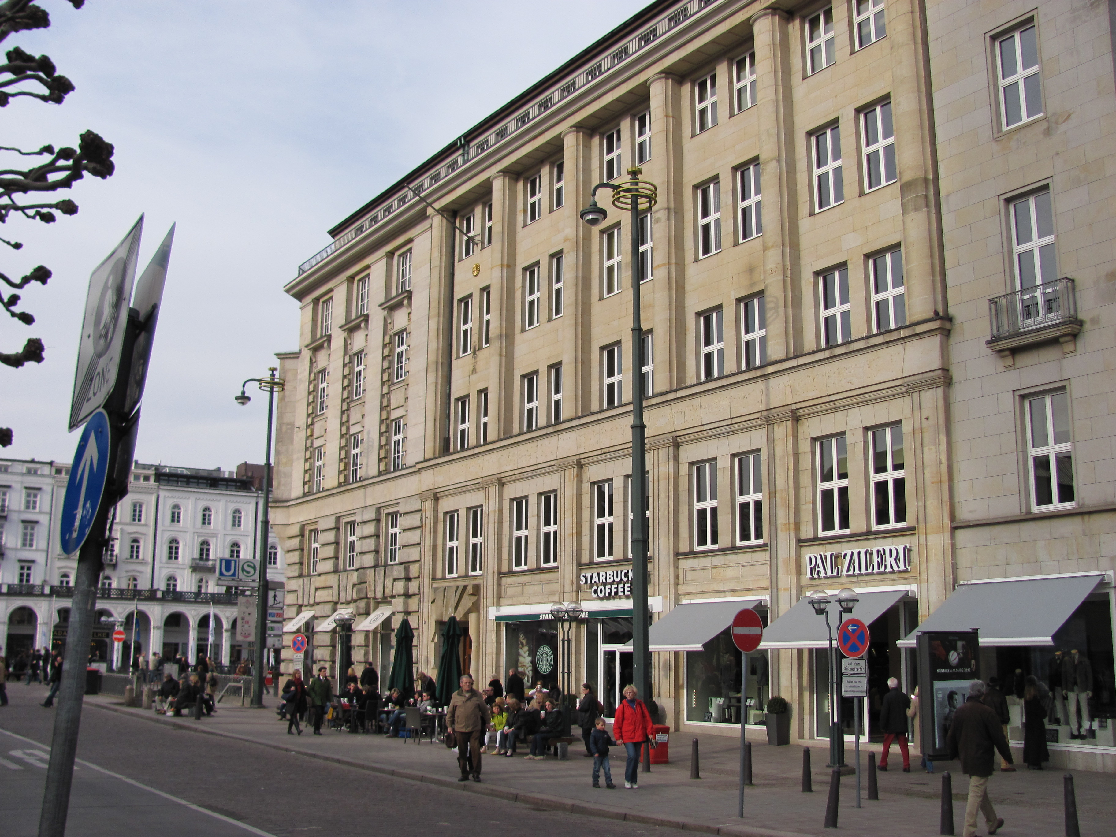 Building Rathausmarkt 5, Hamburg, consulate-general of Japan